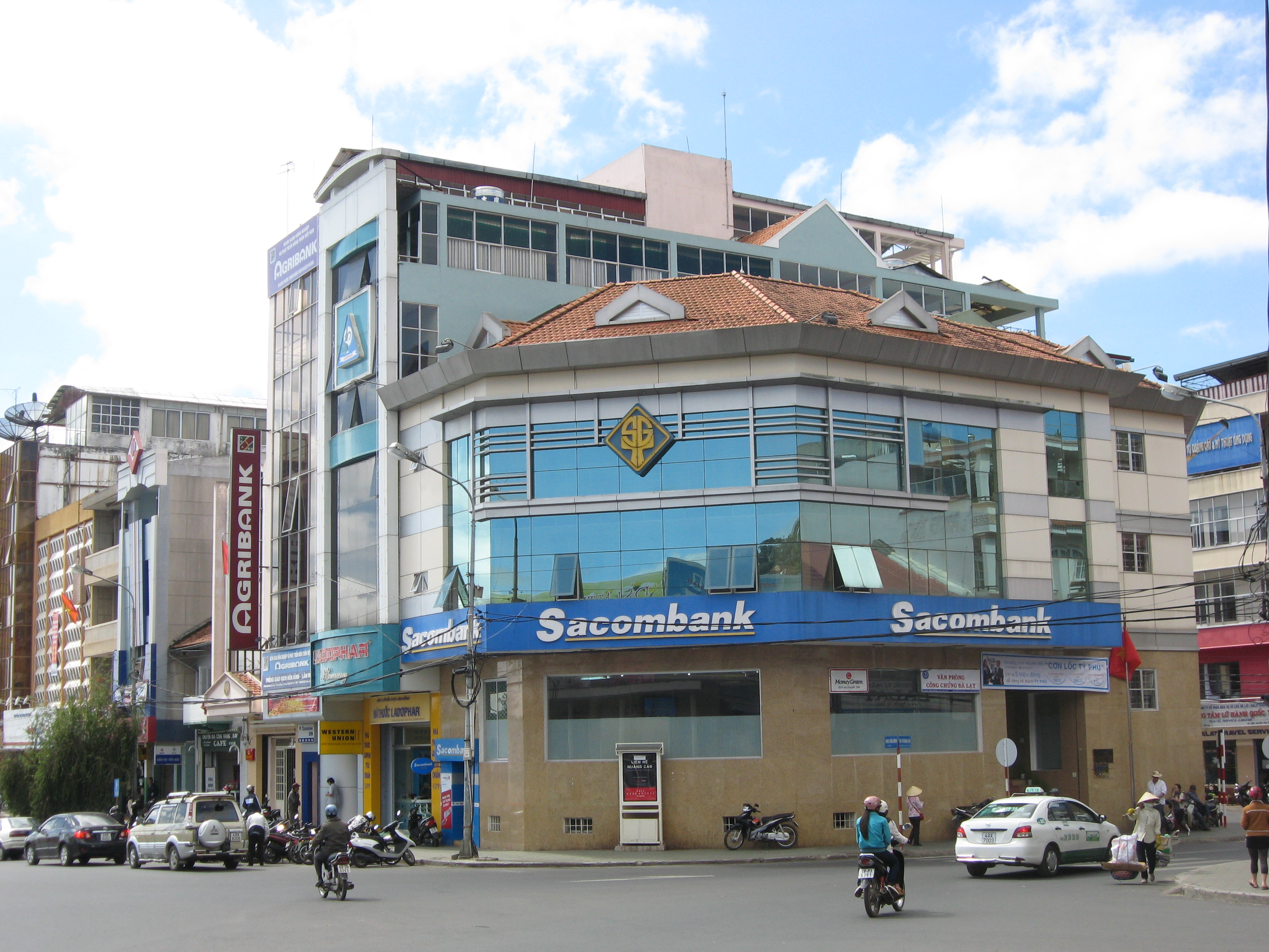 Sacombank, khu Hoa Binh, Da Lat